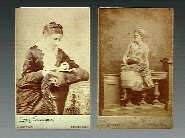 Miss Eva Blantyre Simpson, daughter of Sir James Young Simpson. Photograph by John Moffat. 1 photograph Iconographic Collections Keywords: portrait photographs